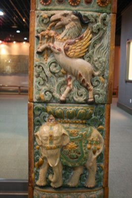 An excavated portion of the Chinese Ming Dynasty (1368-1644 AD) doorway of the now destroyed Porcelain Tower of Nanjing, built during the reign of the Yongle Emperor (1402-1424 AD).